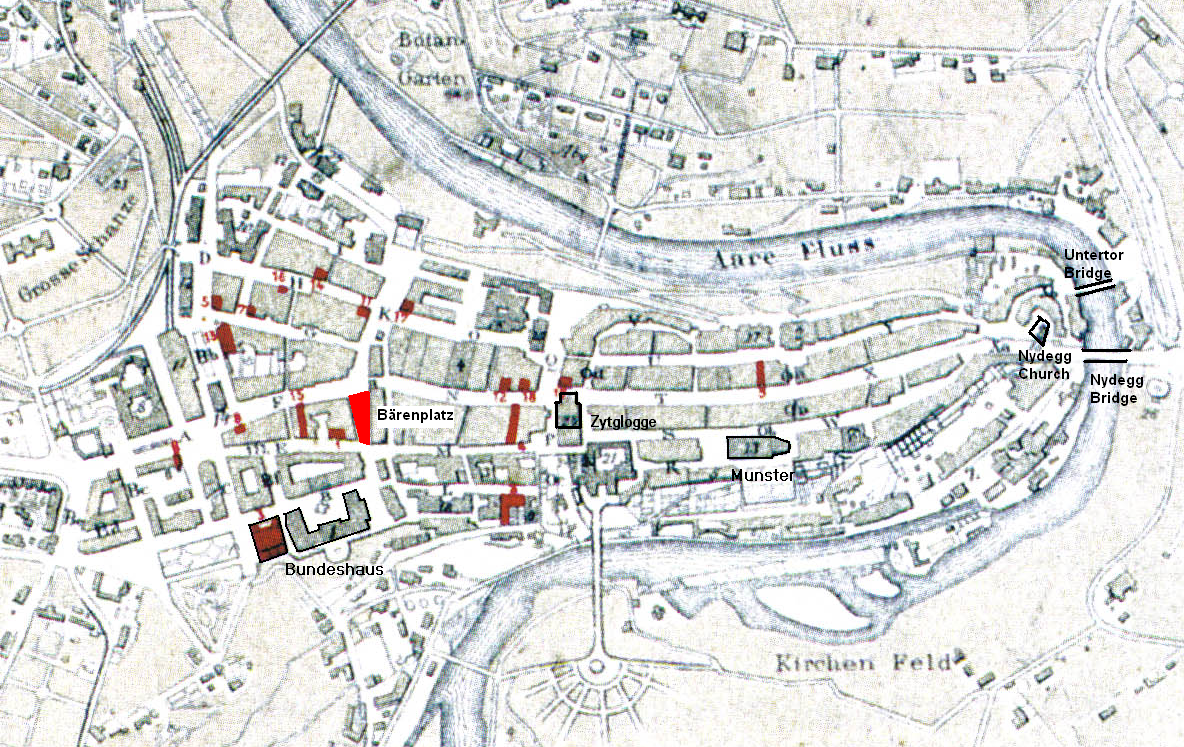 City plan of Bern, 1882. Scanned from BERN: Eine Stadt vor 100 Jahren, Bilder und Berichte; Peter Lauenberger, Emil Erne; München 1997; p. 7. Originally from Bern und seine Umgebungen, C.H. Mann, 1882 in the Alpines Museum of Bern. Due to the age of the image, it must be assumed that the author has been dead for more than 70 years. Copyright protection has therefore lapsed under Swiss copyright law (Art. 29 par. 3 URG).